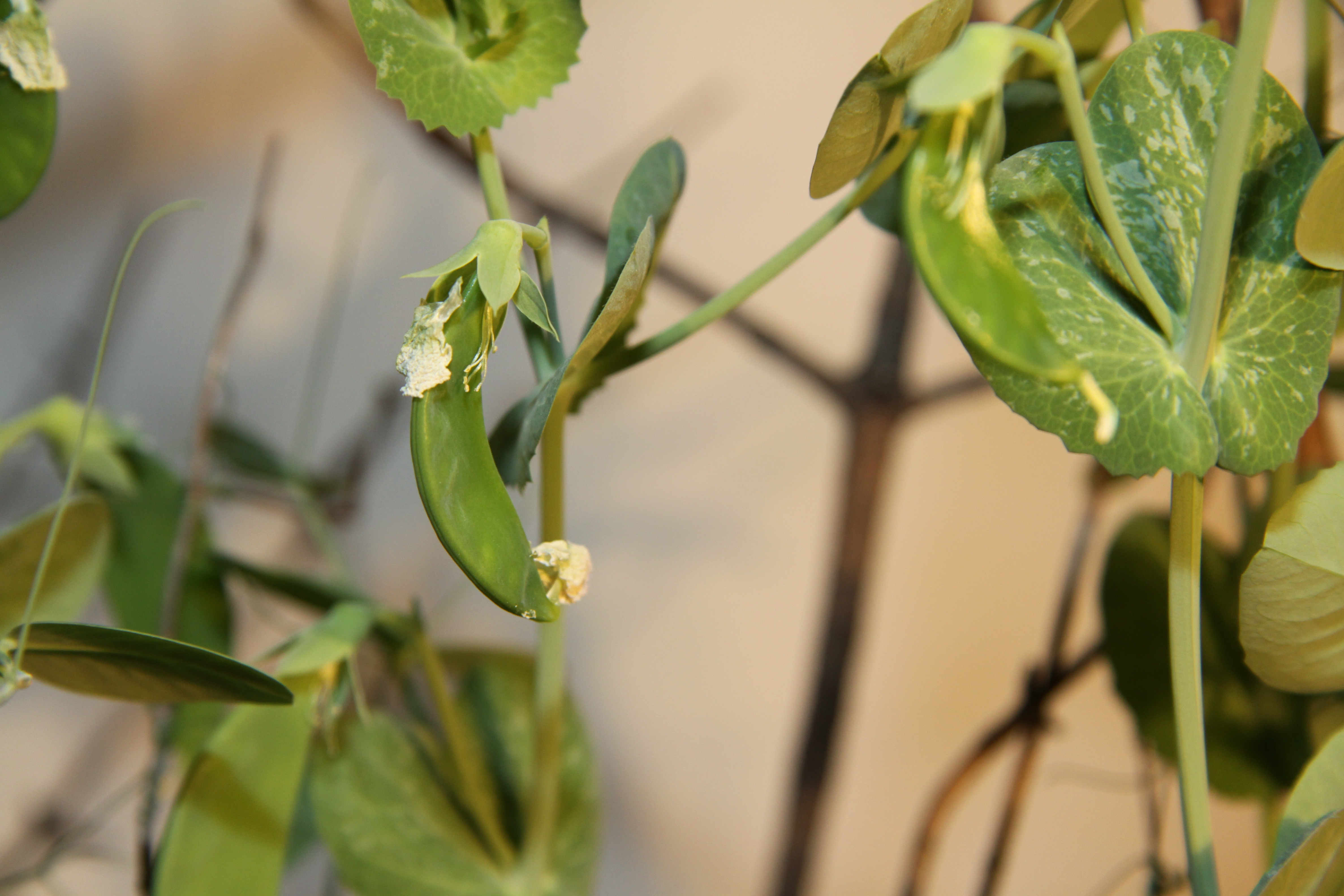 Pea - Pisum sativum - young pod shortly after flowerd.